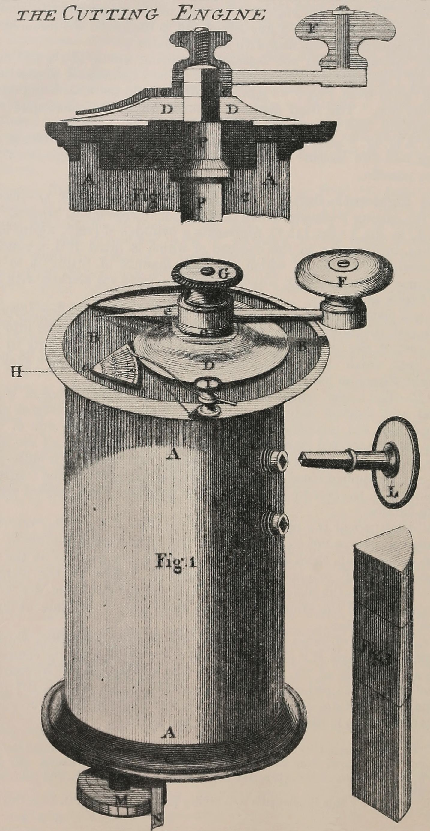 Figures of 'an eighteenth century Microtome'. Published anonymous, Journal of the Royal Microscopical Society, 1910, pages 779-782. The Royal Microscopical Society, Oxford, England. Block of figures used from 1774 publication by John Hills, M.D. Member of the Imperial Academy. London 1774, 2nd edition 64 pages.